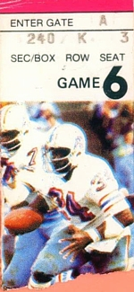 A ticket for a October 26, 1981 NFL game featuring the Houston Oilers versus the Pittsburgh Steelers at Three Rivers Stadium.